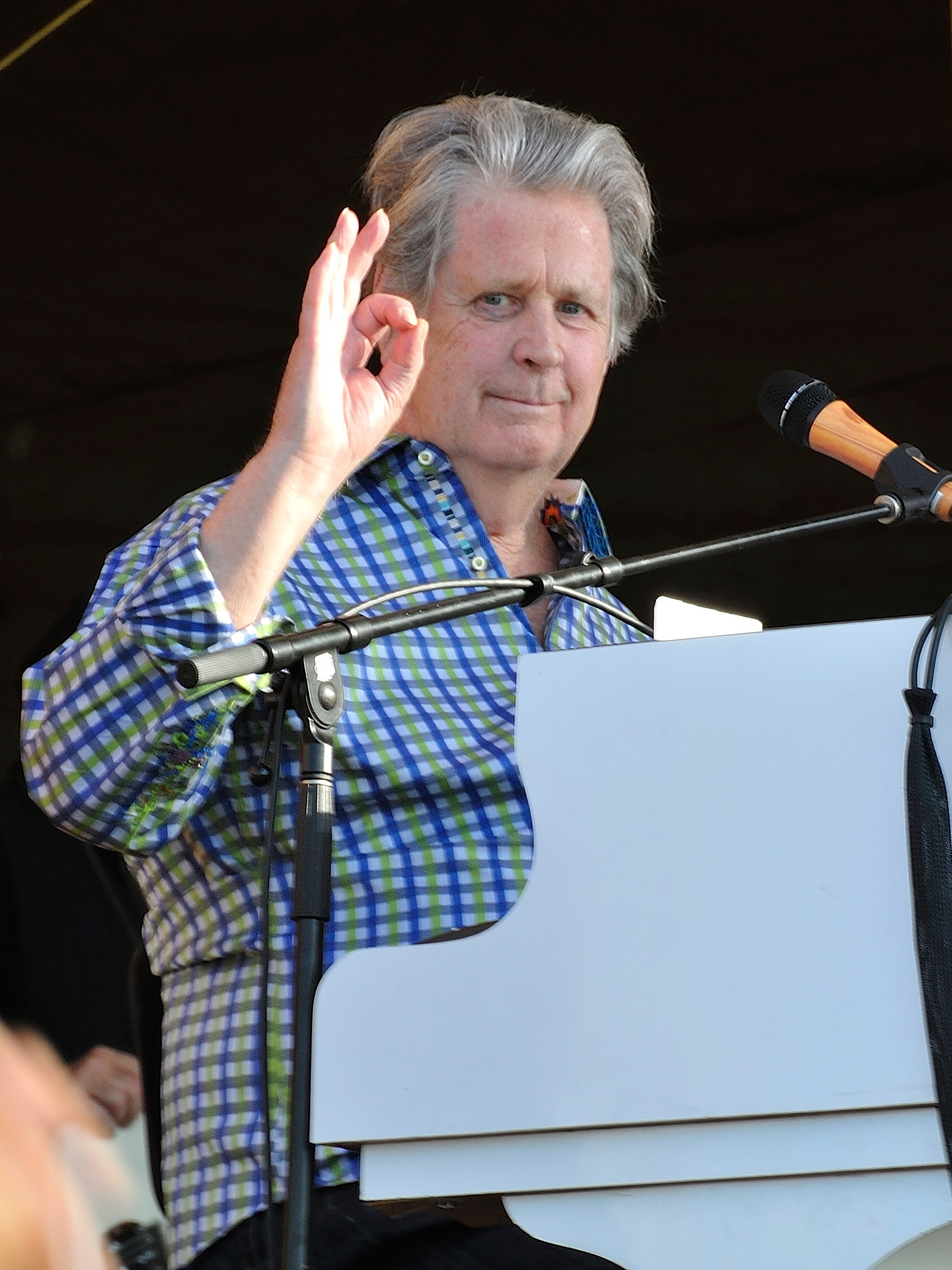 The Beach Boys 50th Anniversary Reunion - New Orleans Jazz & Heritage Festival 2012